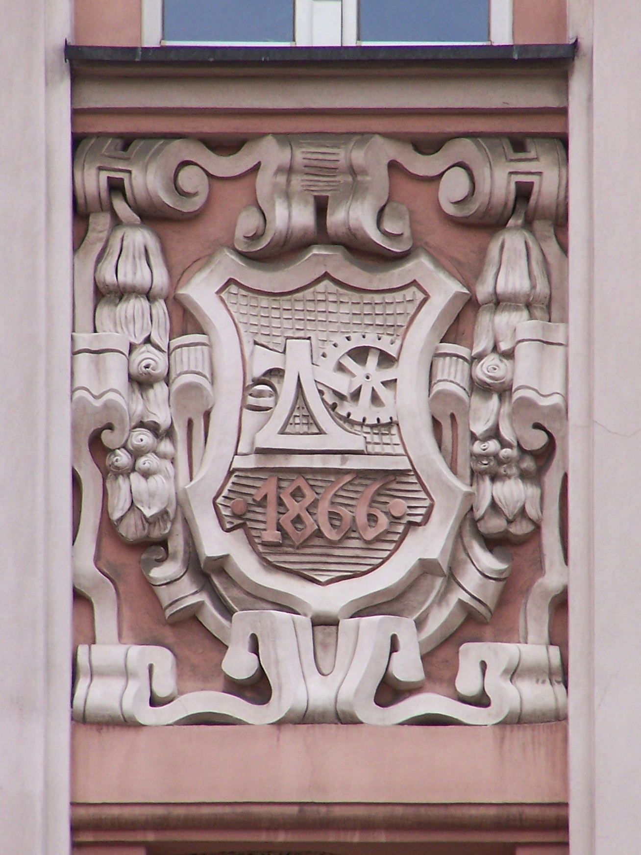 Arms of Katowice at a building at the ul. Dyrekcyjna 10. The house was erected in 1906, based on plans of the company Ignatz Grünfeld.